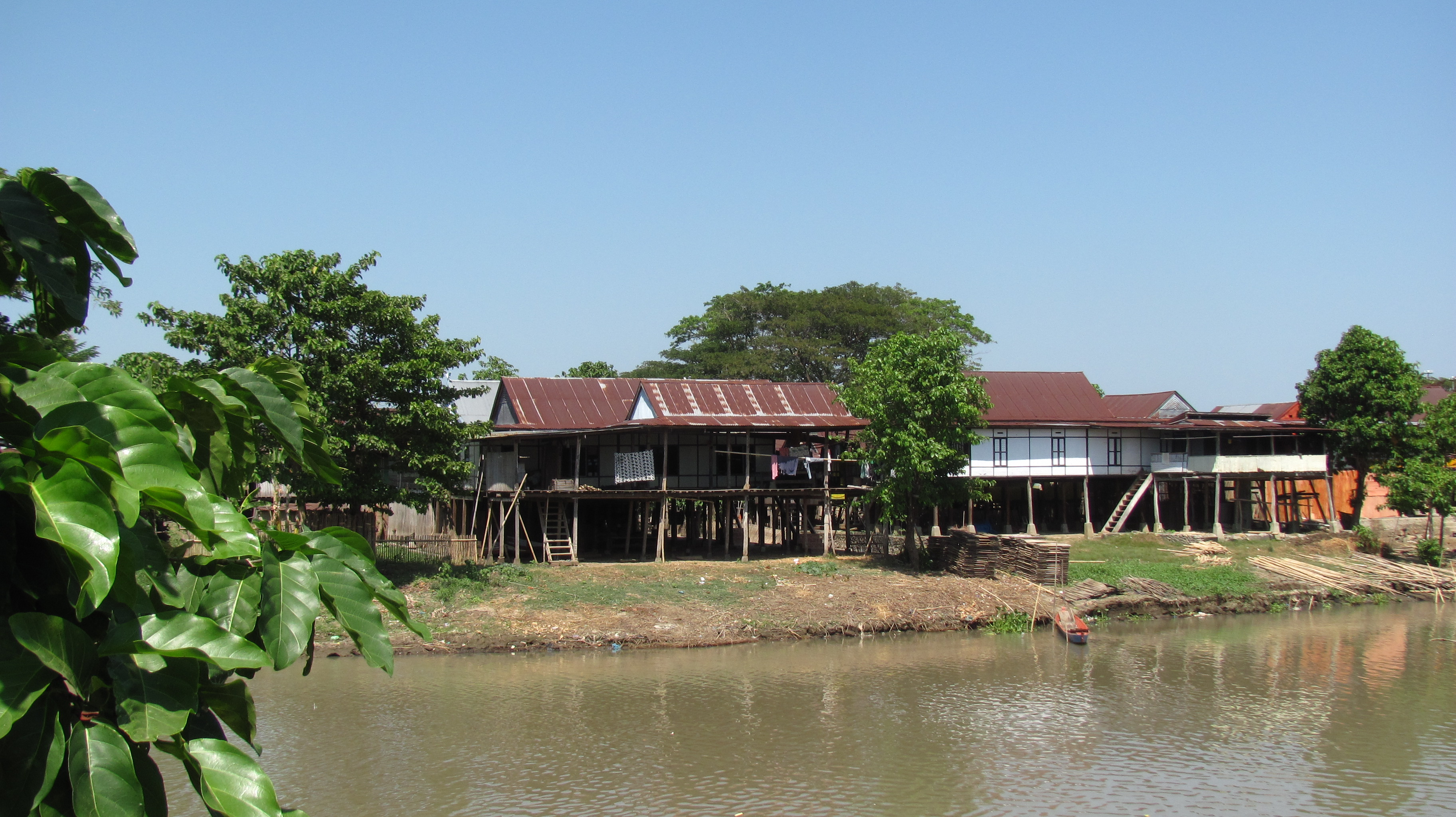 Pile houses on Walanae River, Sengkang town, Sulawesi Island, Indonesia